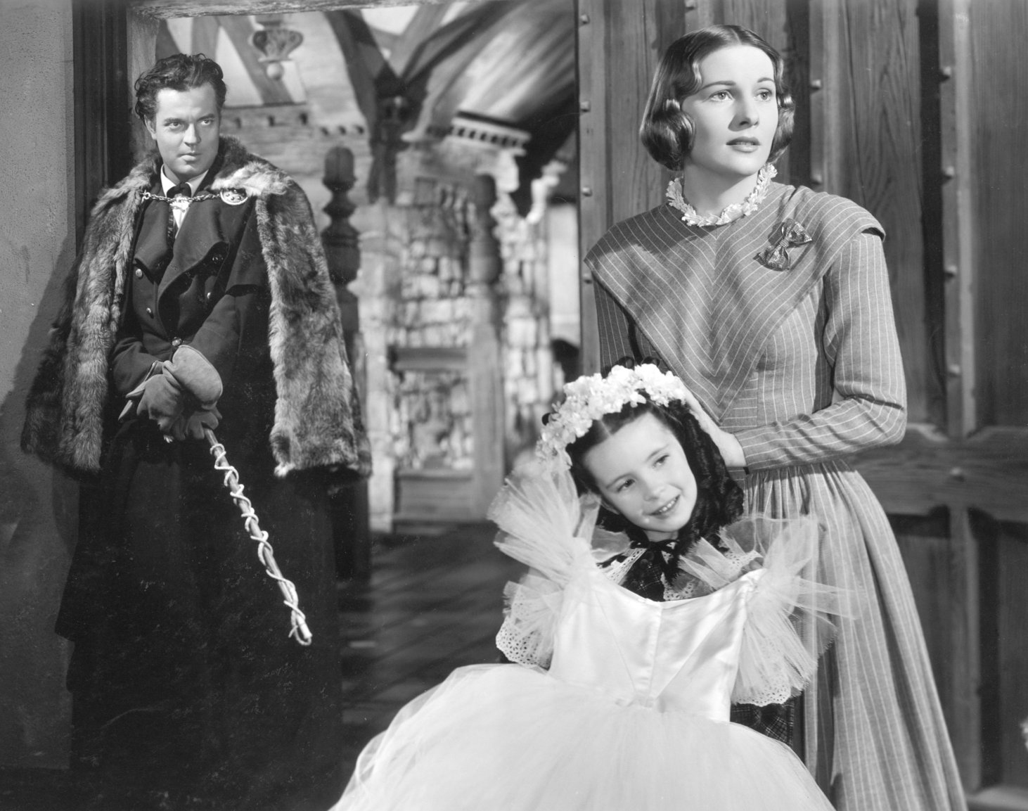 Promotional photograph for the 1943 film Jane Eyre From left: Orson Welles, Margaret O'Brien, Joan Fontaine